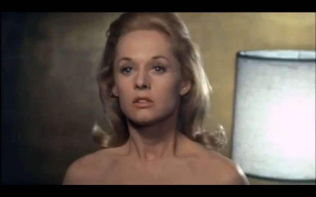 Tippi Hedren in Hitchcock's "Marnie" trailer.